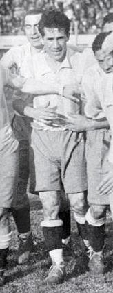 Guillermo Stábile, first World Cup topscorer